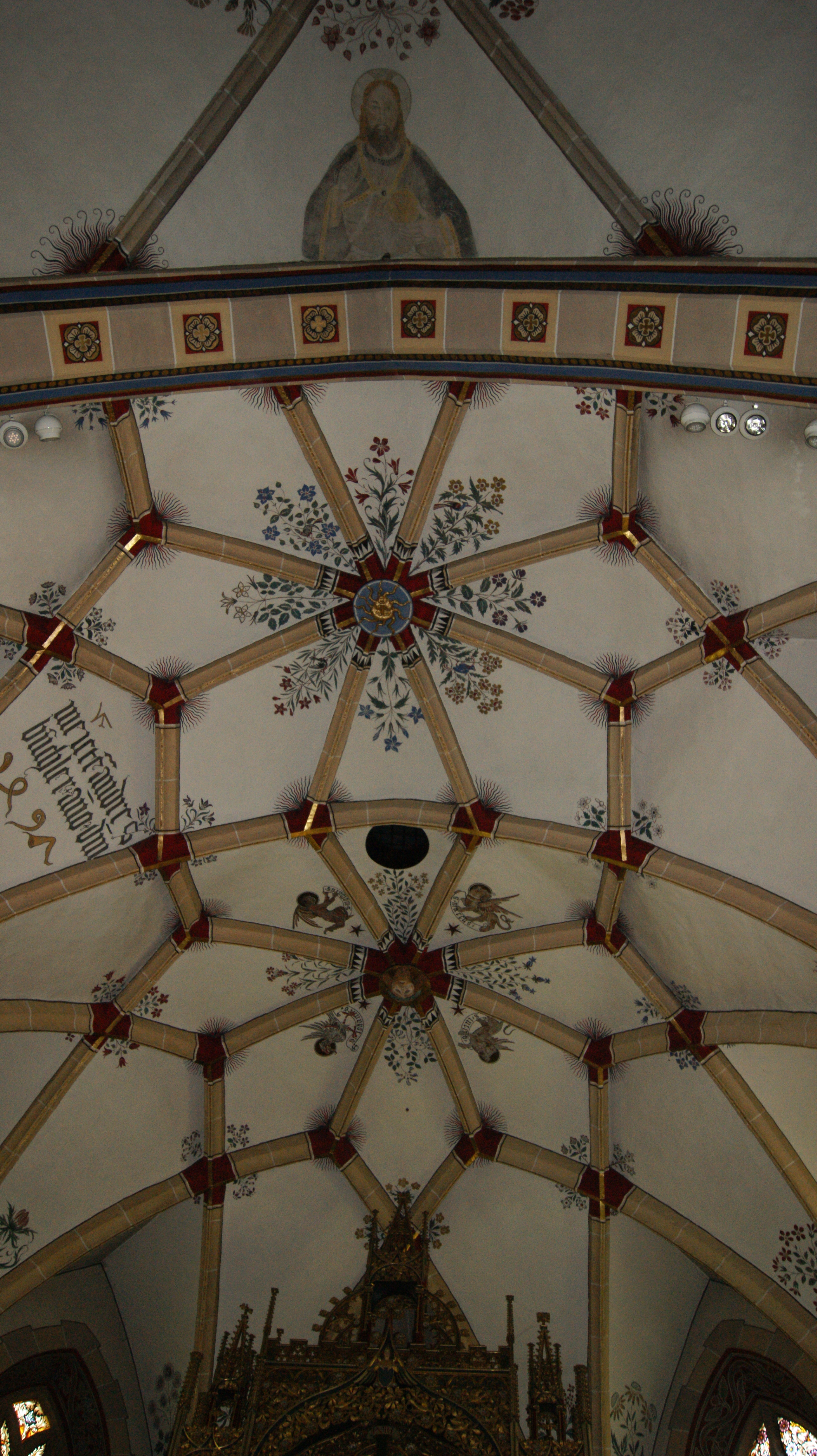 Catholic Collegiate Church of St. Victor / Chiesa collegiata cattolica di San Vittore in Poschiavo, Grisons, Switzerland. Cross vault in the nave.